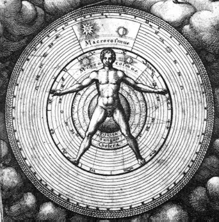 An drawing depicting the Renaissance's idea of man's connection to the universe. Drawn during the Renaissance.